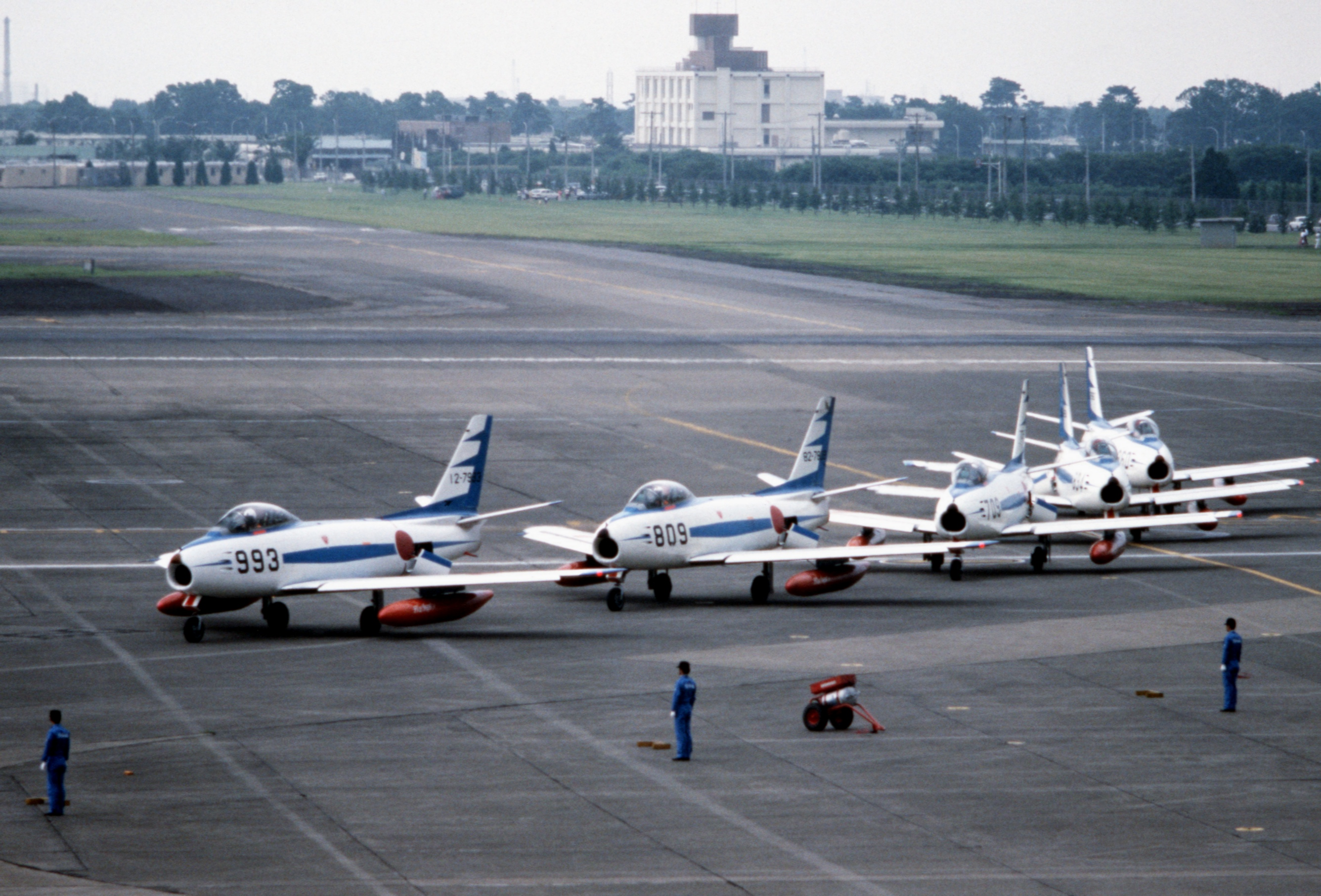 The Japan Air Self Defense Force's flight demonstration team Blue Impulse taxi their F-86F Sabre aircraft out during the annual Japanese-American Friendship Festival at Yokota Air Base, Japan.